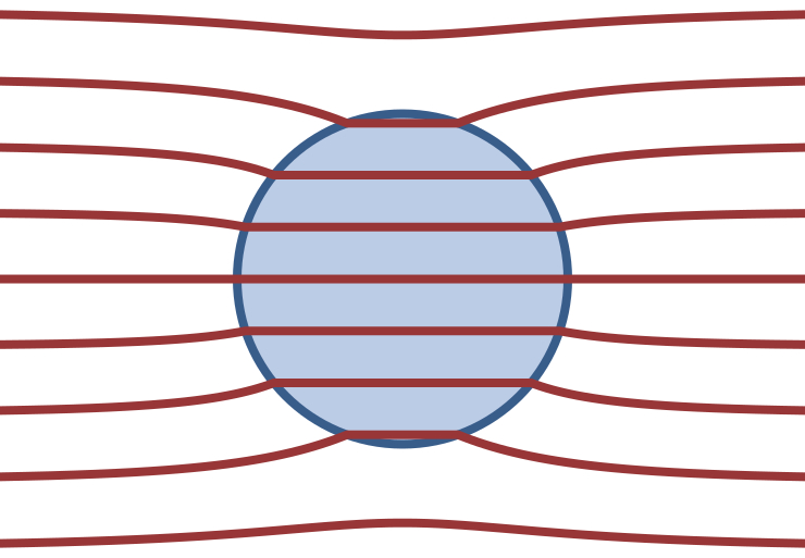 electric field lines in dielectric sphere Based upon equations provided by Andrew Gray (1888) The theory and practice of absolute measurements in electricity and magnetism, Macmillan & Co., pp. 126-127 , which refers to papers by Sir W. Thomson.